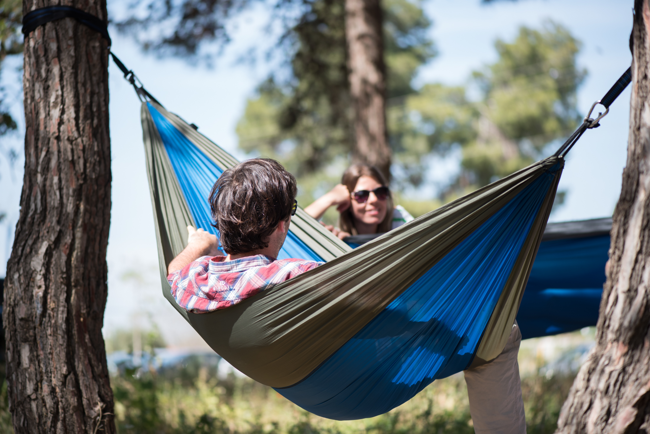 Ripstop used often in camping material such as hammocks.